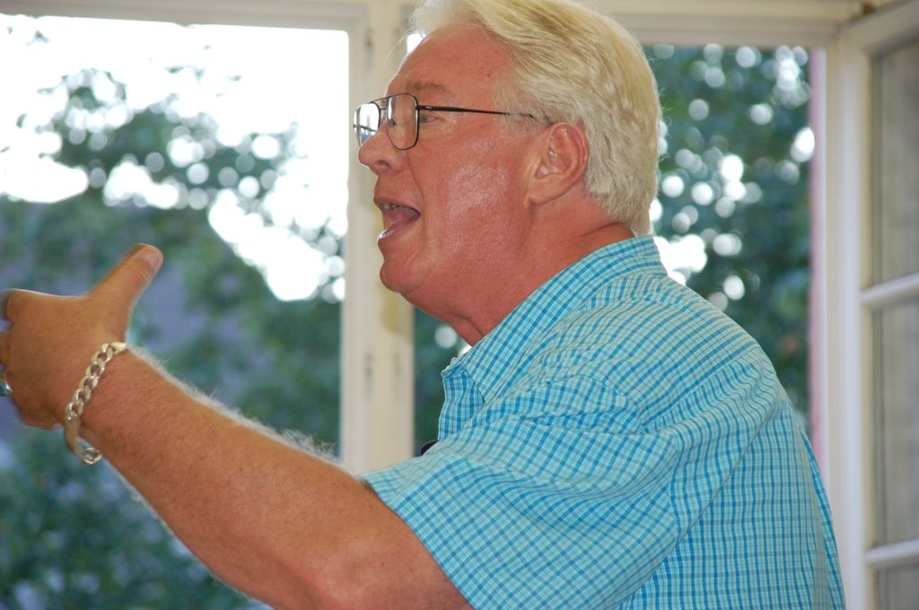 Prof. Dr. Tibor R. Machan